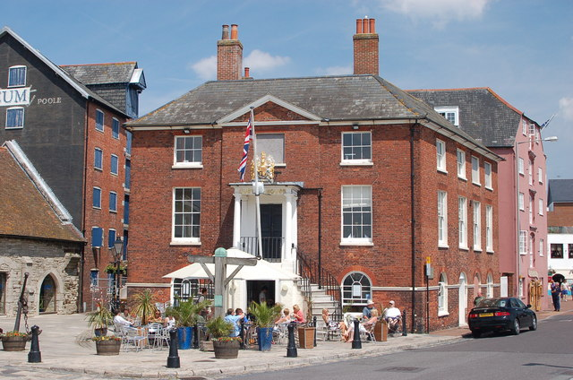 The Customs House, Poole Quay.